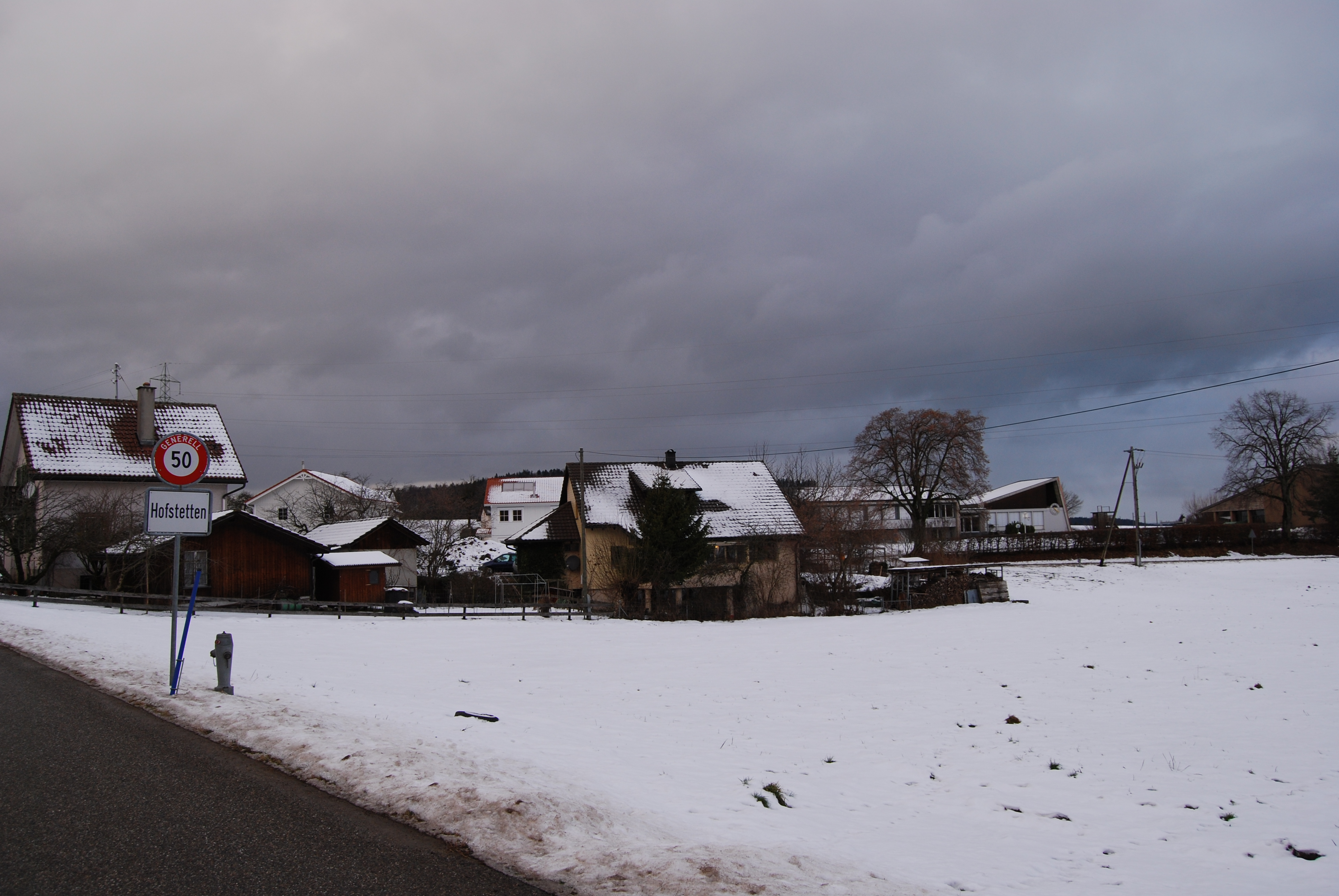 School Hofstetten, canton of Zürich, SwitzerlandEsperanto: Lernejo Hofstetten, Kantono Zuriko, Svislando